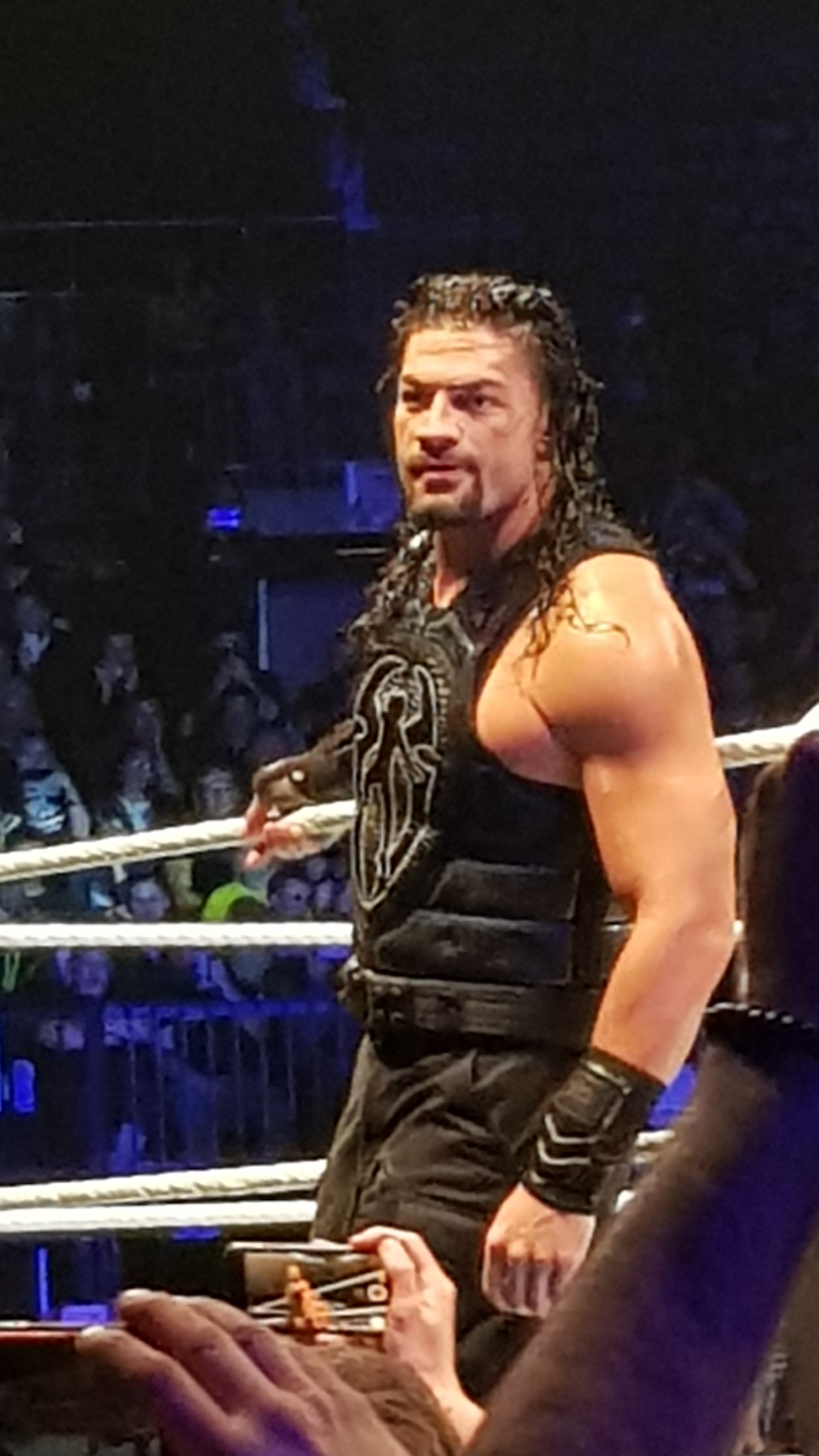 Image of professional wrestler Roman Reigns in May 2019